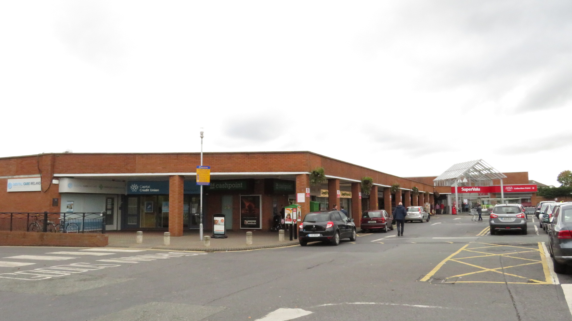 Knocklyon Shopping Centre in Dublin.